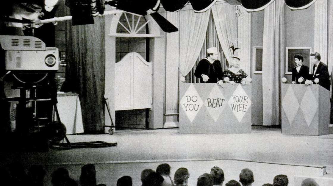 Dress rehearsal of The Red Skelton Show depicting Red Skelton and Mickey Rooney from two-page Montsanto ad in Life magazine. The sketch appears to be a parody of the CBS game show Do You Trust Your Wife?